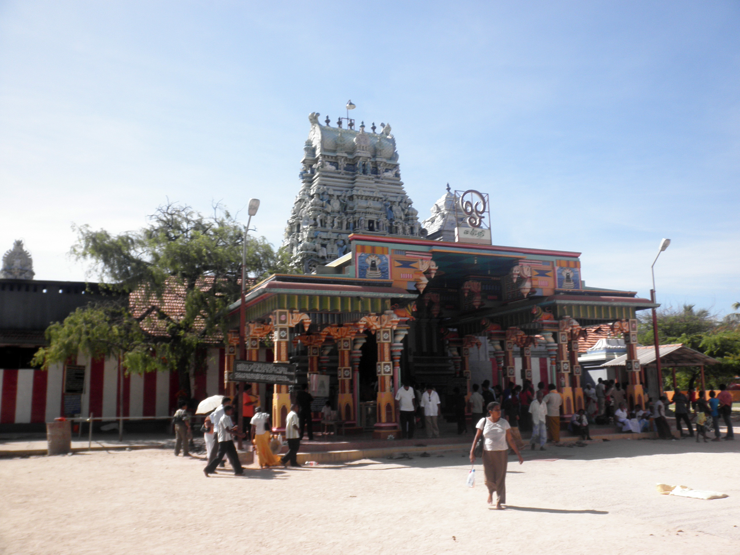 Nagapooshani Amman Kovil, the Hindu temple on Nainativu island